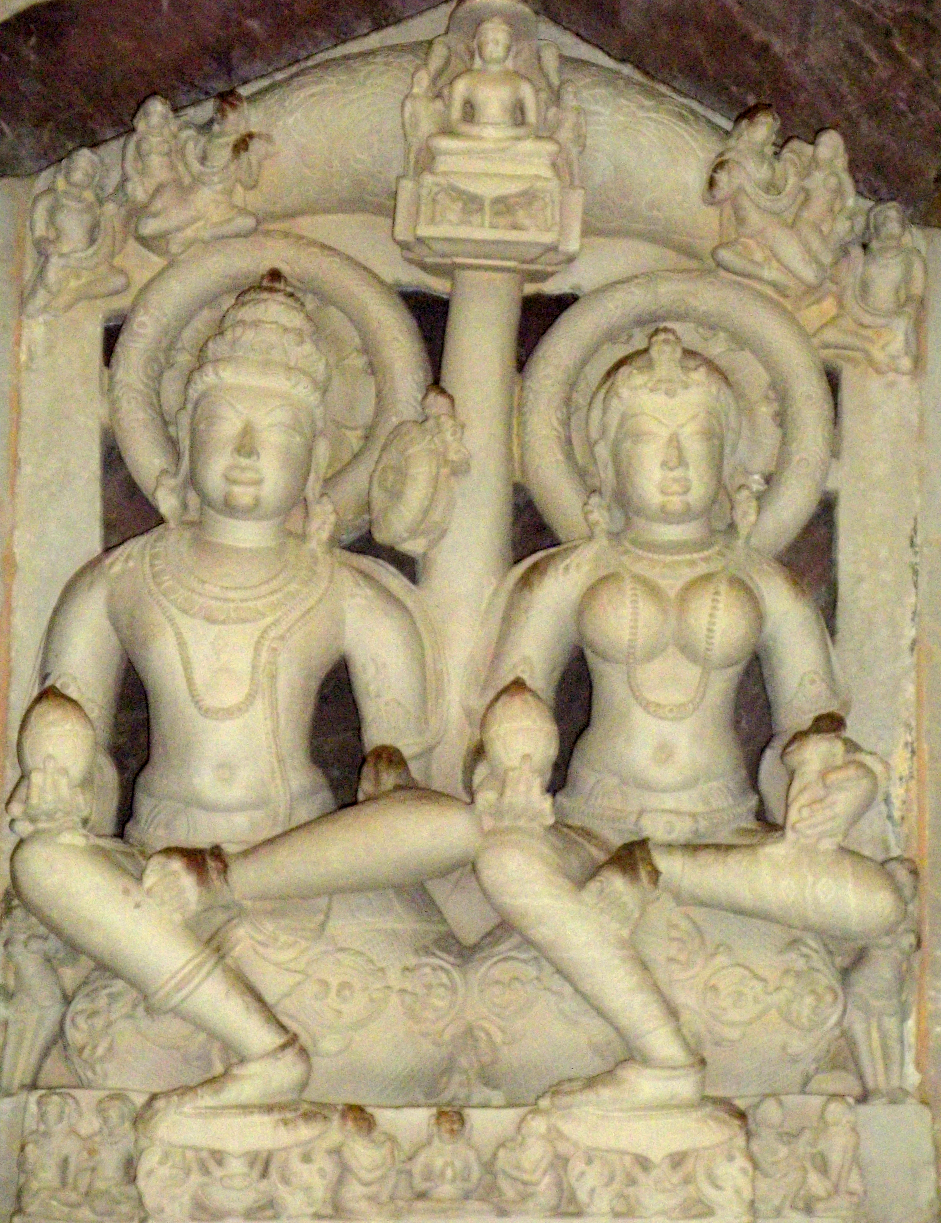 Image of King Nabhi and Mata Marudevi (Parents of first Tirthankara of present avasarpani) Photo: Khajurao Museum, Madhya Pradesh, India